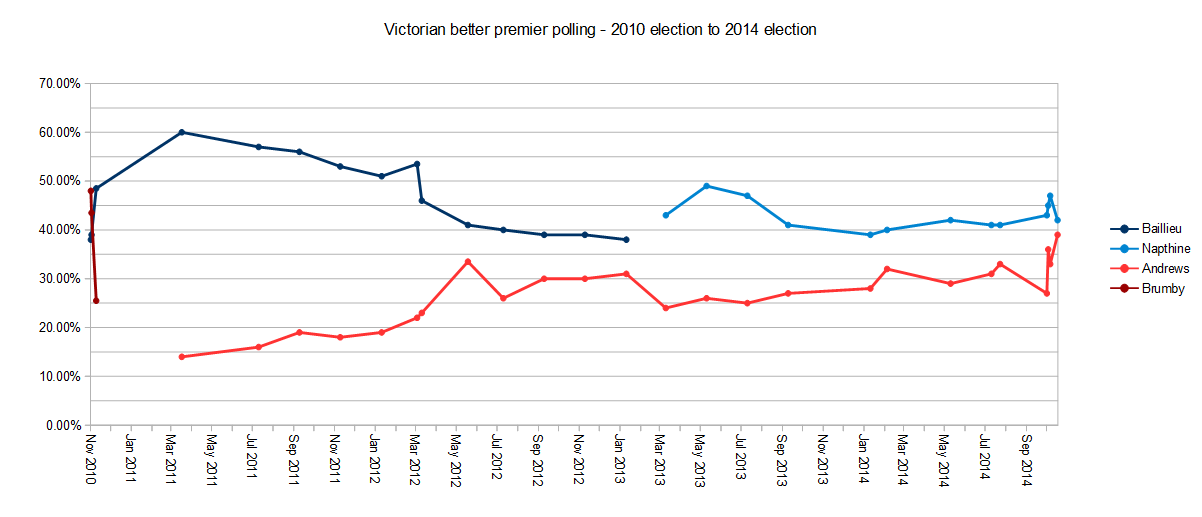 Victorian better premier polling - 2010 election to 2014 election Created with OpenOffice from data sourced from Victorian state election, 2014.